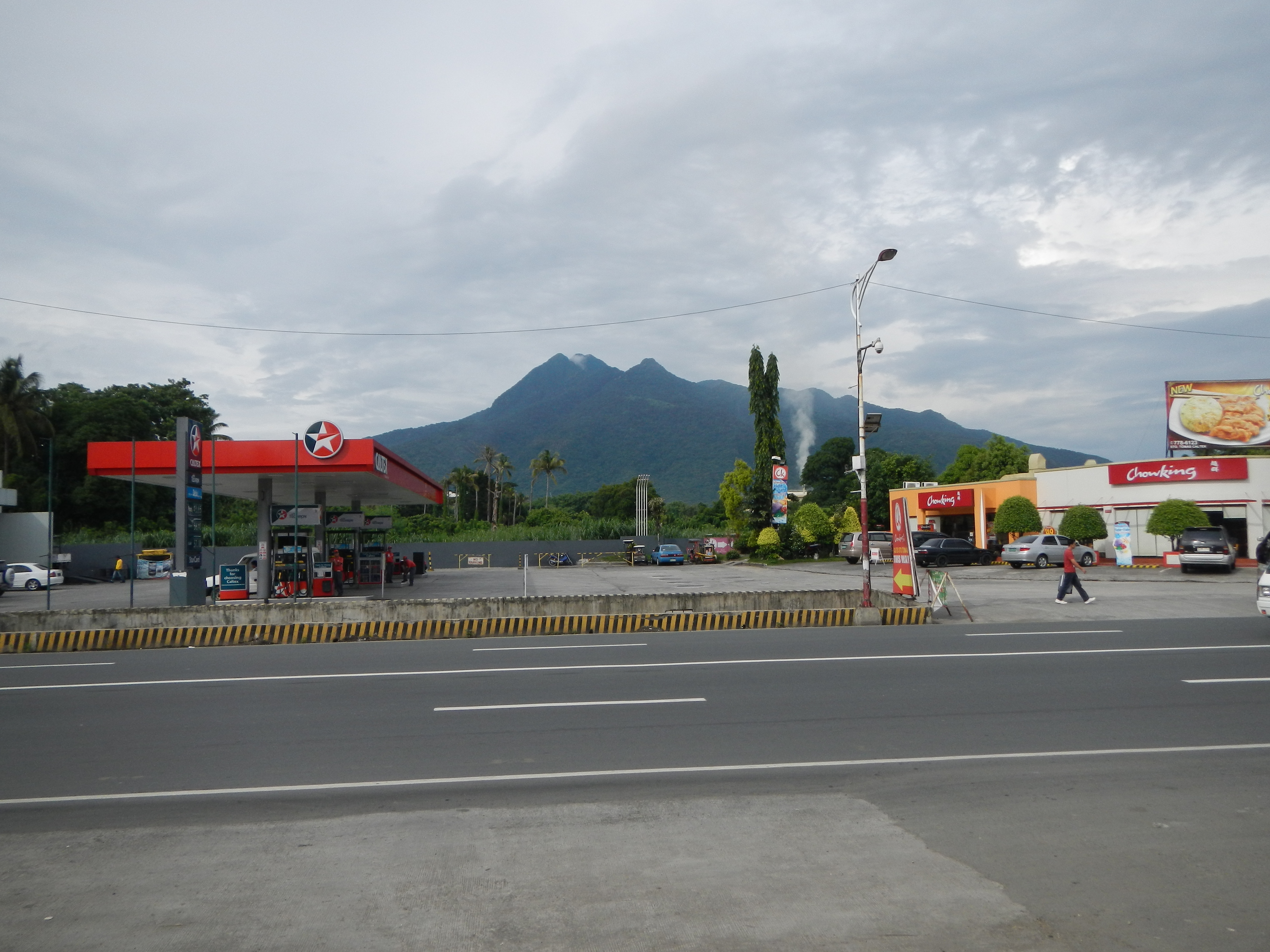 Public Market, Foot Bridge and Mount Makiling[1] as seen from the -- Maharlika Highway, (Pan-Philippine Highway[2]( The Pan-Philippine Highway, also known as the Maharlika "Nobility/Free People") --- Barangay San Antonio, Santo Tomas, Batangas[3] Website --- Santo Tomas (also spelled as Sto. Tomas) is a first class municipality in the province of Batangas,[4] Philippines. According to the 2010 census, it has a population of 123,668 people. The town is a gateway to the province from Laguna. This is also the hometown of Philippine Revolution and Philippine-American War hero Miguel Malvar.[5] The patron of Santo Tomas is Saint Thomas Aquinas,[6] patron of Catholic schools celebrates his feast day every 7 March.Election Results 2013 Santo Tomas mayoral bet Edna Sanchez accused of vote-buying [7] Coordinates: 14°3'44"N 121°10'24"E Geographical location: Batangas, Region 4, Philippines, Asia Geographical coordinates: 14° 6' 33" North, 121° 8' 31" East This place is situated in Batangas, Region 4, Philippines, its geographical coordinates are 14° 6' 33" North, 121° 8' 31" East and its original name (with diacritics) is Santo Tomas. [8]